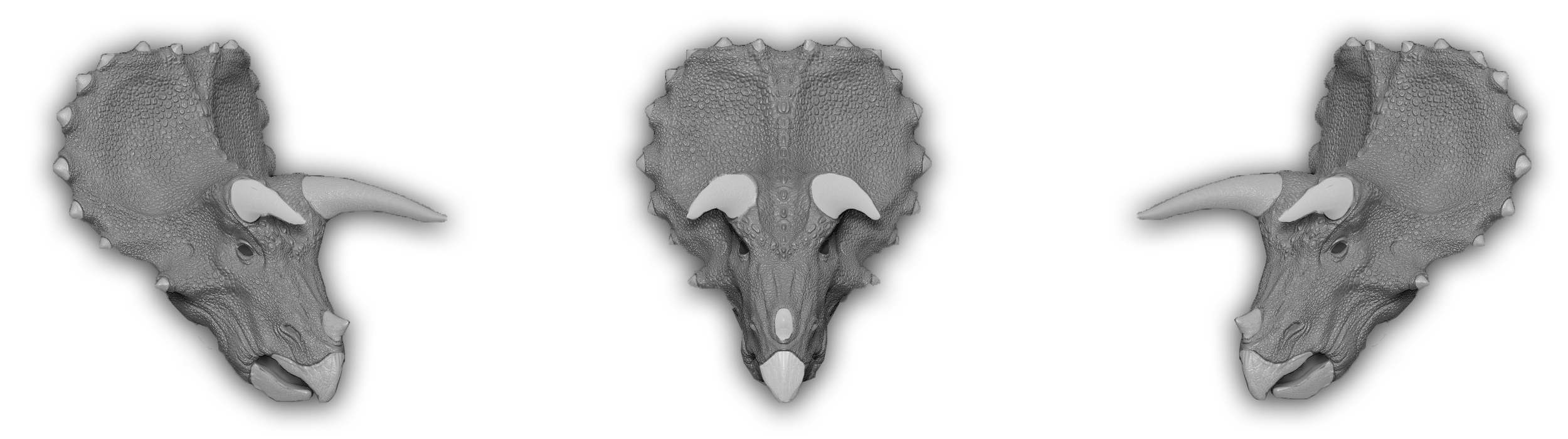 Triceratops head digital reconstruction